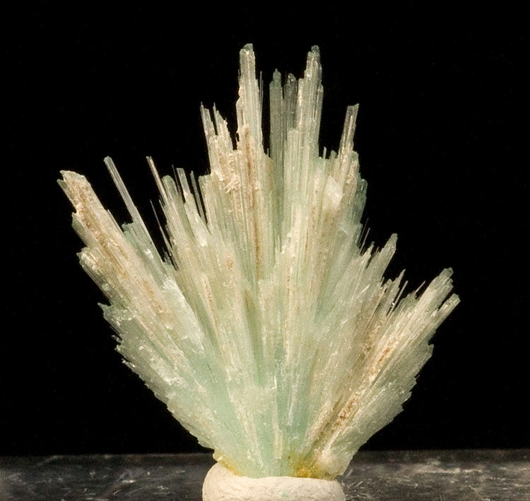 Metavauxite Locality: Siglo Veinte Mine (Siglo XX Mine; Llallagua Mine; Catavi), Llallagua, Rafael Bustillo Province, Potosí Department, Bolivia (Locality at ) Size: 1.9 x 1.6 x 0.4 cm. Metavauxite is a very rare supergene secondary phosphate mineral found in the oxidized zone of only two tin mines in the world, both in Bolivia. Metavauxite is the rarest of the related vauxite family members: paravauxite; metavauxite; and vauxite. It is a monoclinic dimorph of the already rare paravauxite, with clearly different crystal habit when seen in person. This is an exquisite cluster of sharp, pastel-green crystals from the Type Locality - the Siglo Veinte Mine at Llallagua. This specimen almost certainly dates to when Mark Bandy recovered the best material in the mid 1900s. Ex. Carl Davis Collection.